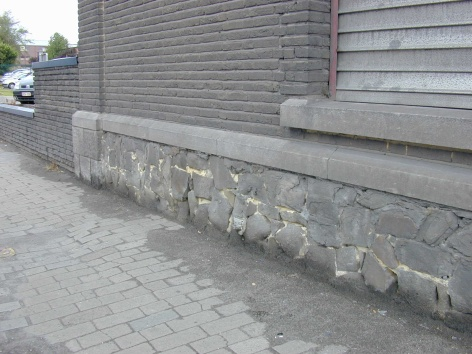 Topography benchmark in Belgium This type of benchmark also exists in other countries.